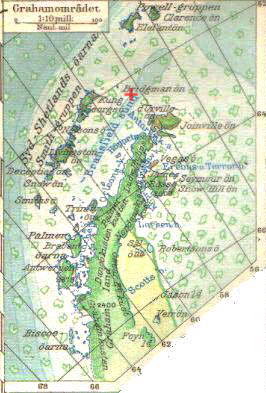 Map of northern Antarctis with sinking site of MS Explorer marked